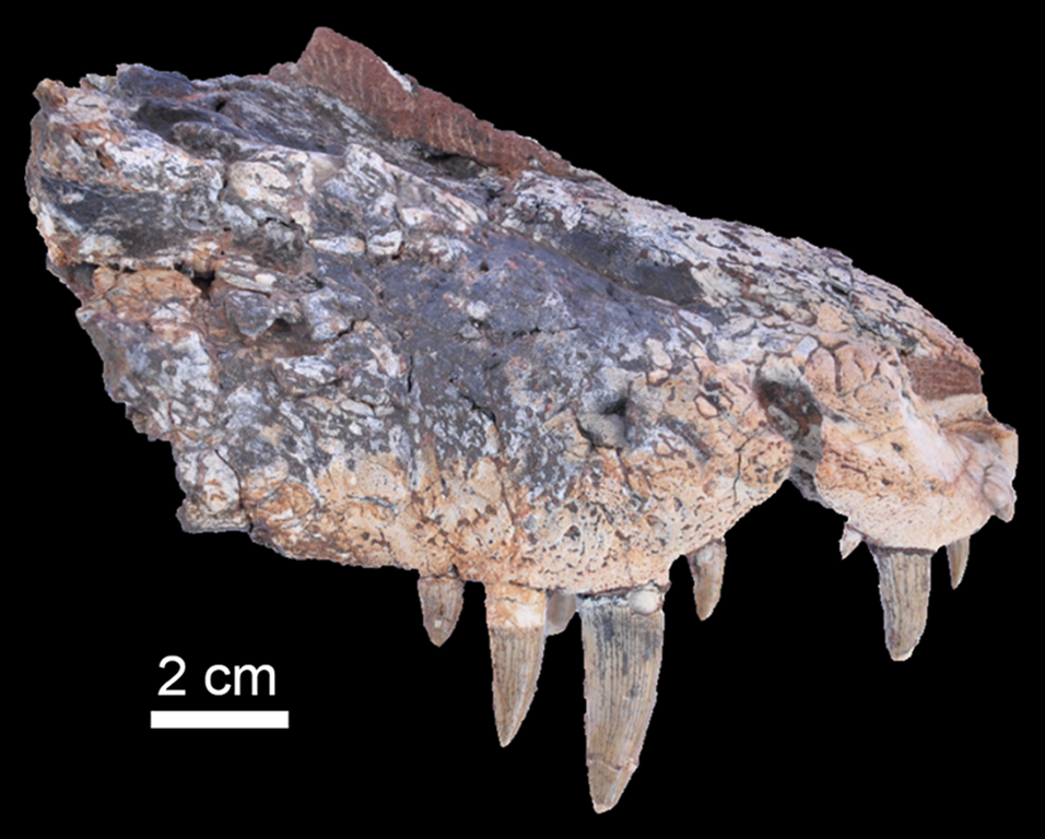 Referred specimen CPPLIP 1236 of Campinasuchus dinizi.